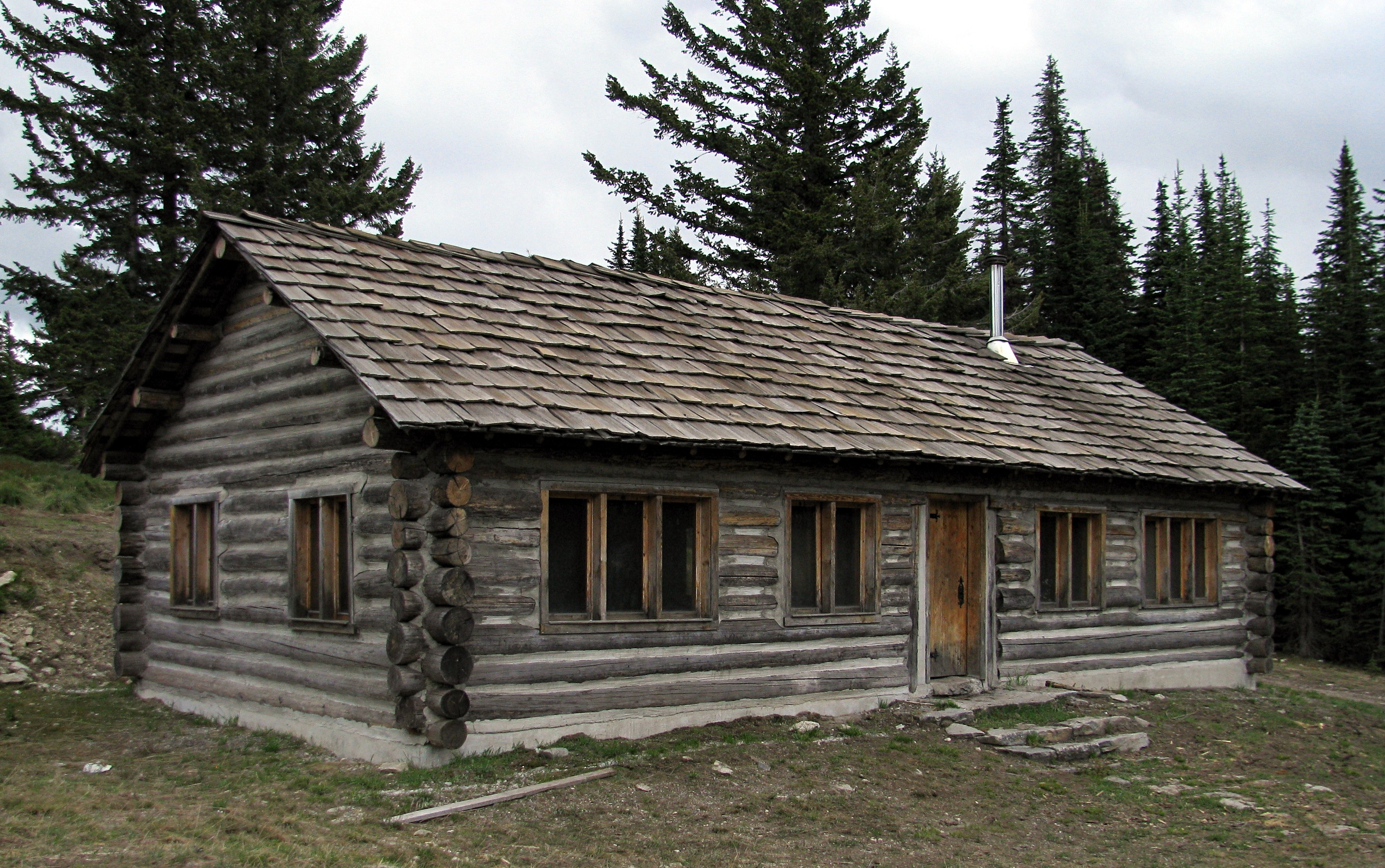 The Civilian Conservation Corps cabin in Mount Spokane State Park